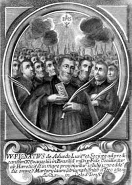 Engraving plate with blessed Martyrs of Brazil, or from Tazacorte, from a book